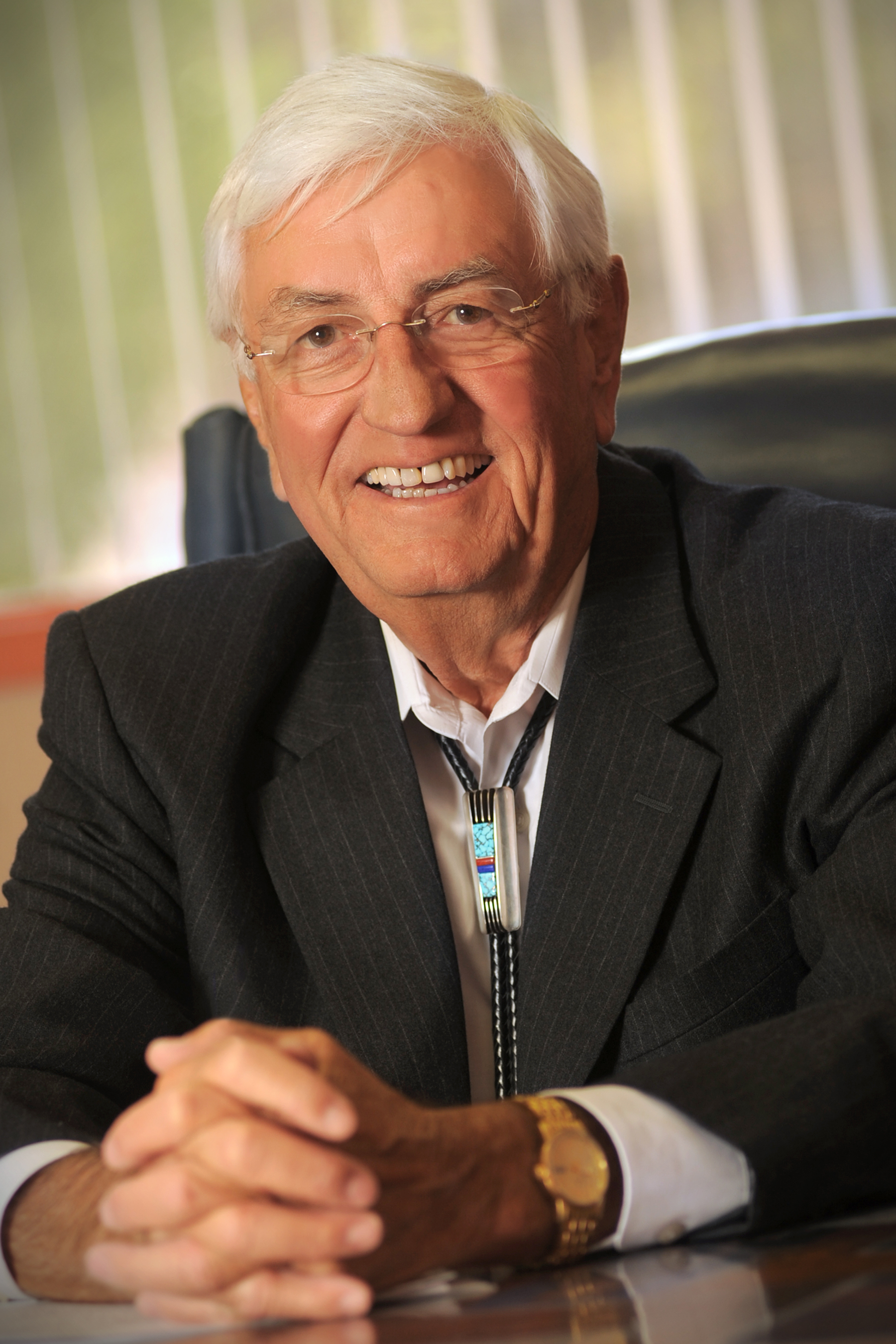 Garrey Carruthers, President of New Mexico State University and former Governor of New Mexico